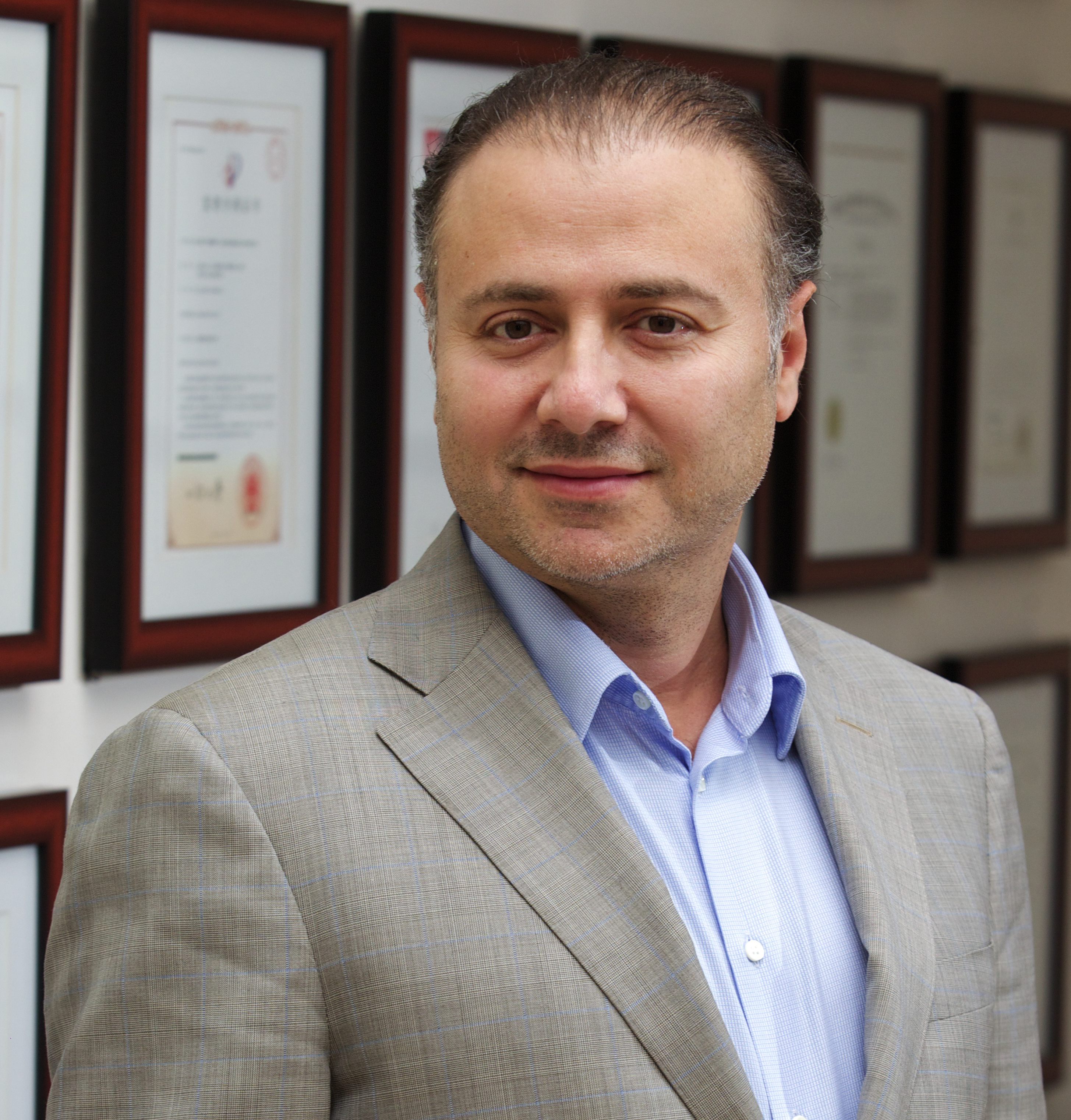 Al Siblani, CEO, EnvisionTEC